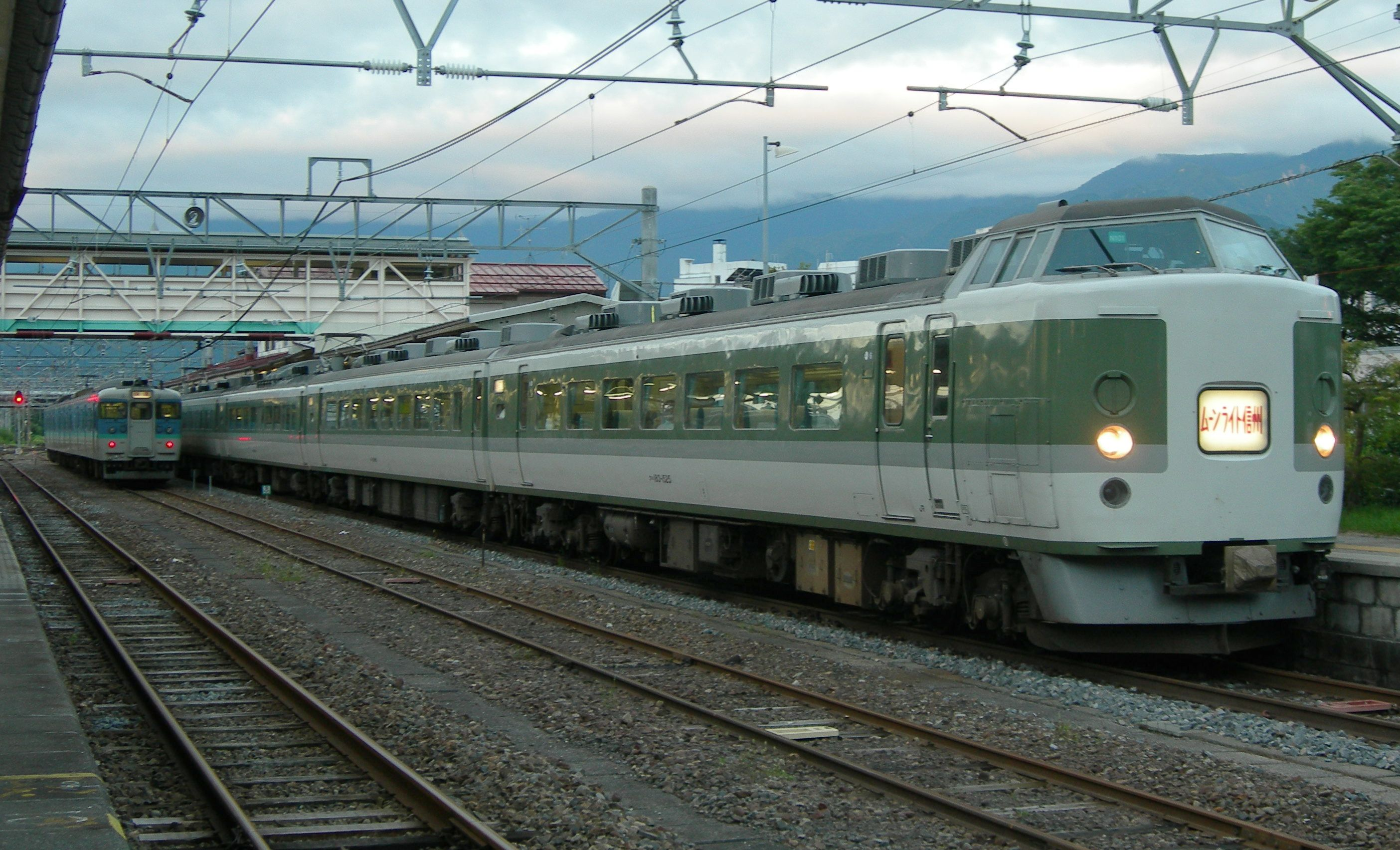 JR East 189 series EMU set N101 at Shinano-Ōmachi Station on a Moonlight Shinshu service